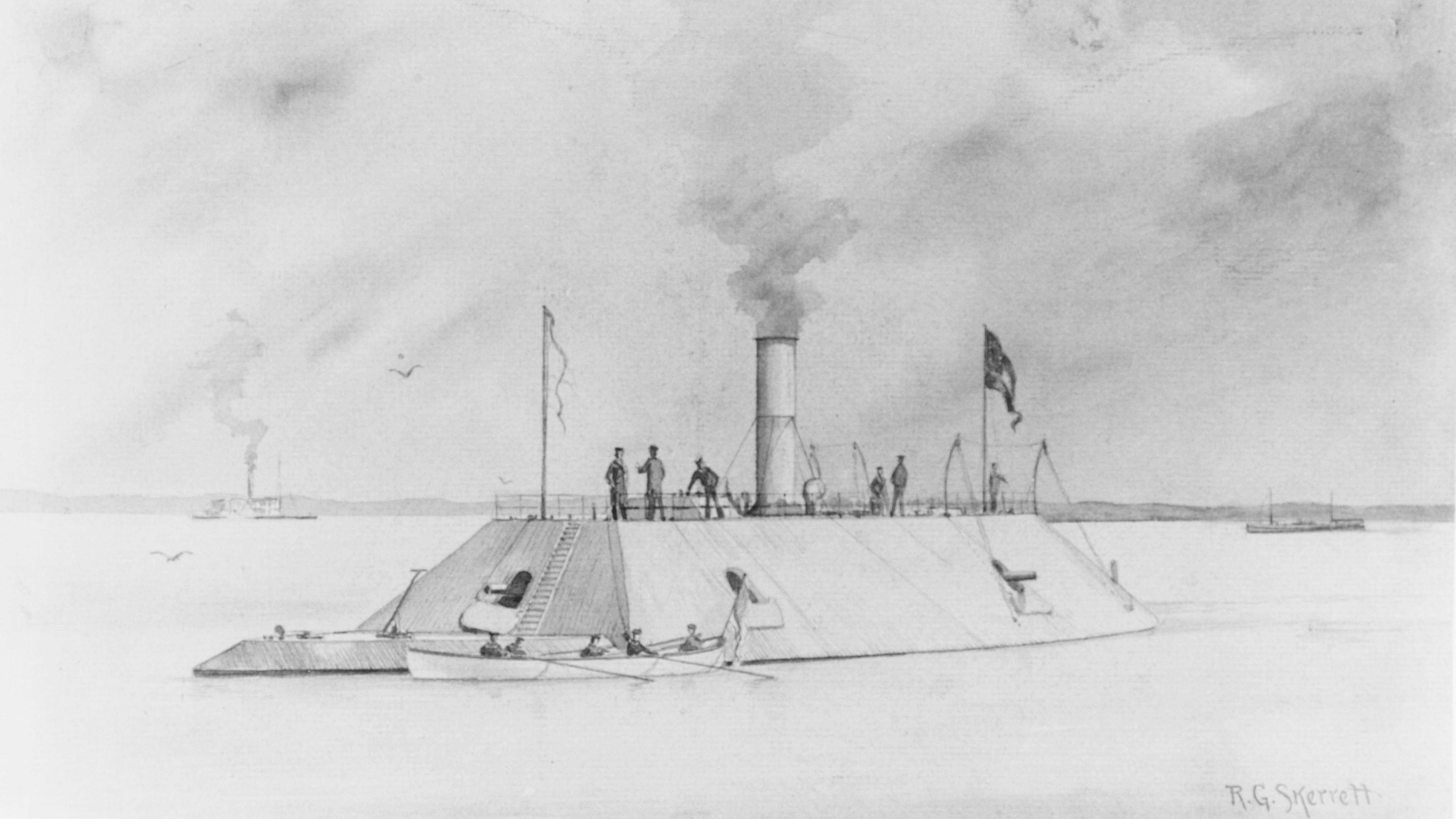 Painting by Robert G. Skerrett of CSS Palmetto State, published in James Morris Morgan's Recollections of a Rebel Reefer (1917). From the public domain U.S. Naval Historical Center.